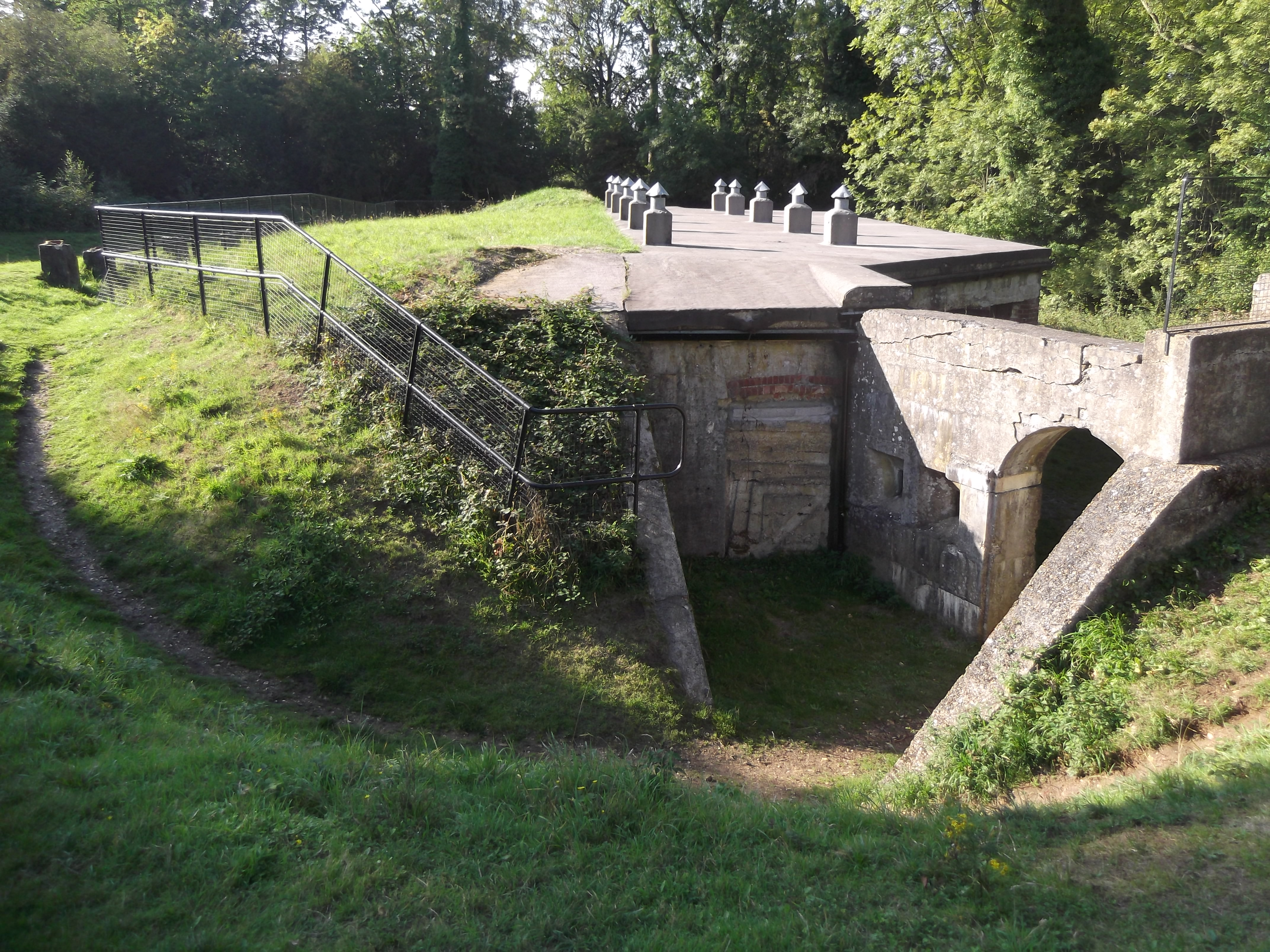 A scheduled monument, Box Hill Fort is a relic from the 1890s, when a chain of such sites were built to defend London in case of invasion by France or Russia.